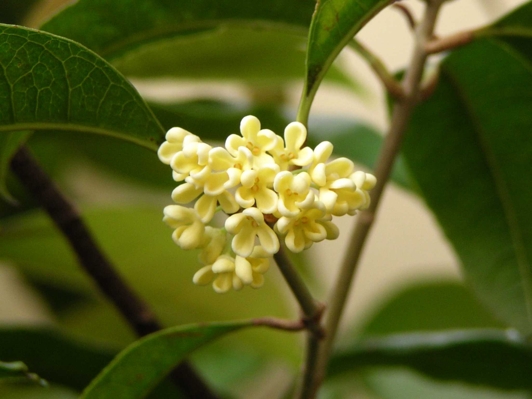 Osmanthus fragrans